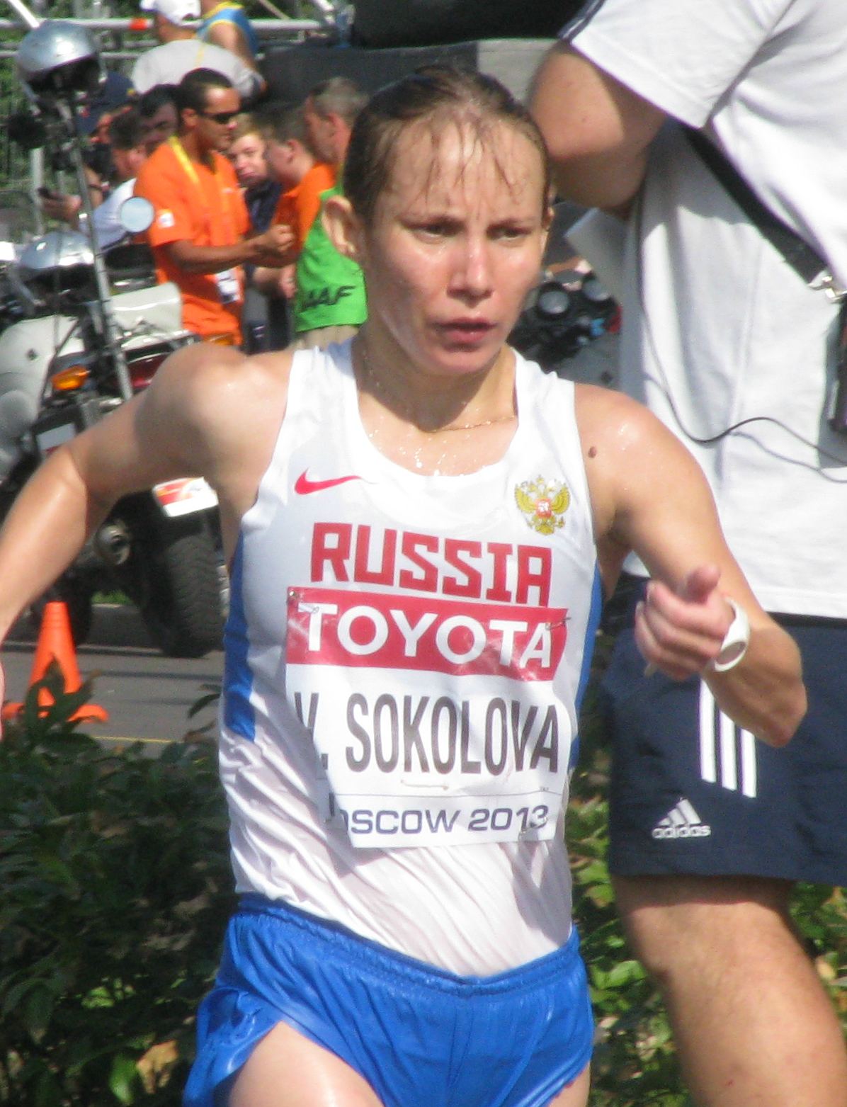 Vera Sokolova in action during Women's 20 kilometres walk at the 2013 World Championships in Athletics